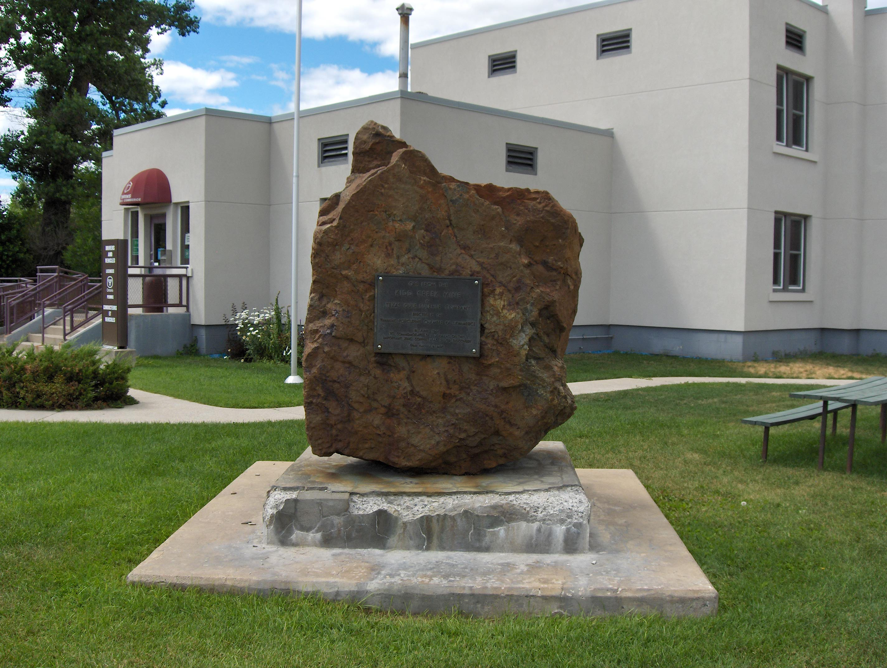 Author - John Monaghan Source - HP Photosmart R717